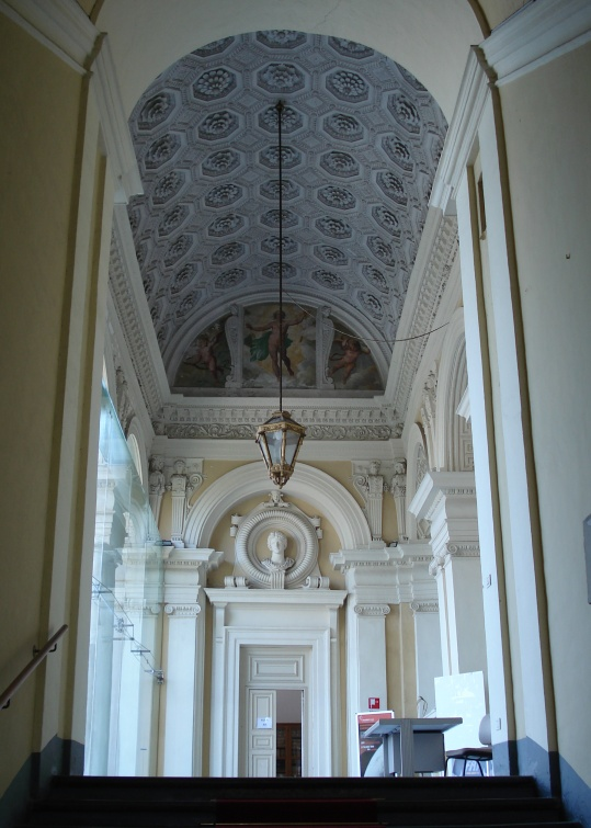 Villa Giustiniani Cambiaso in Genova